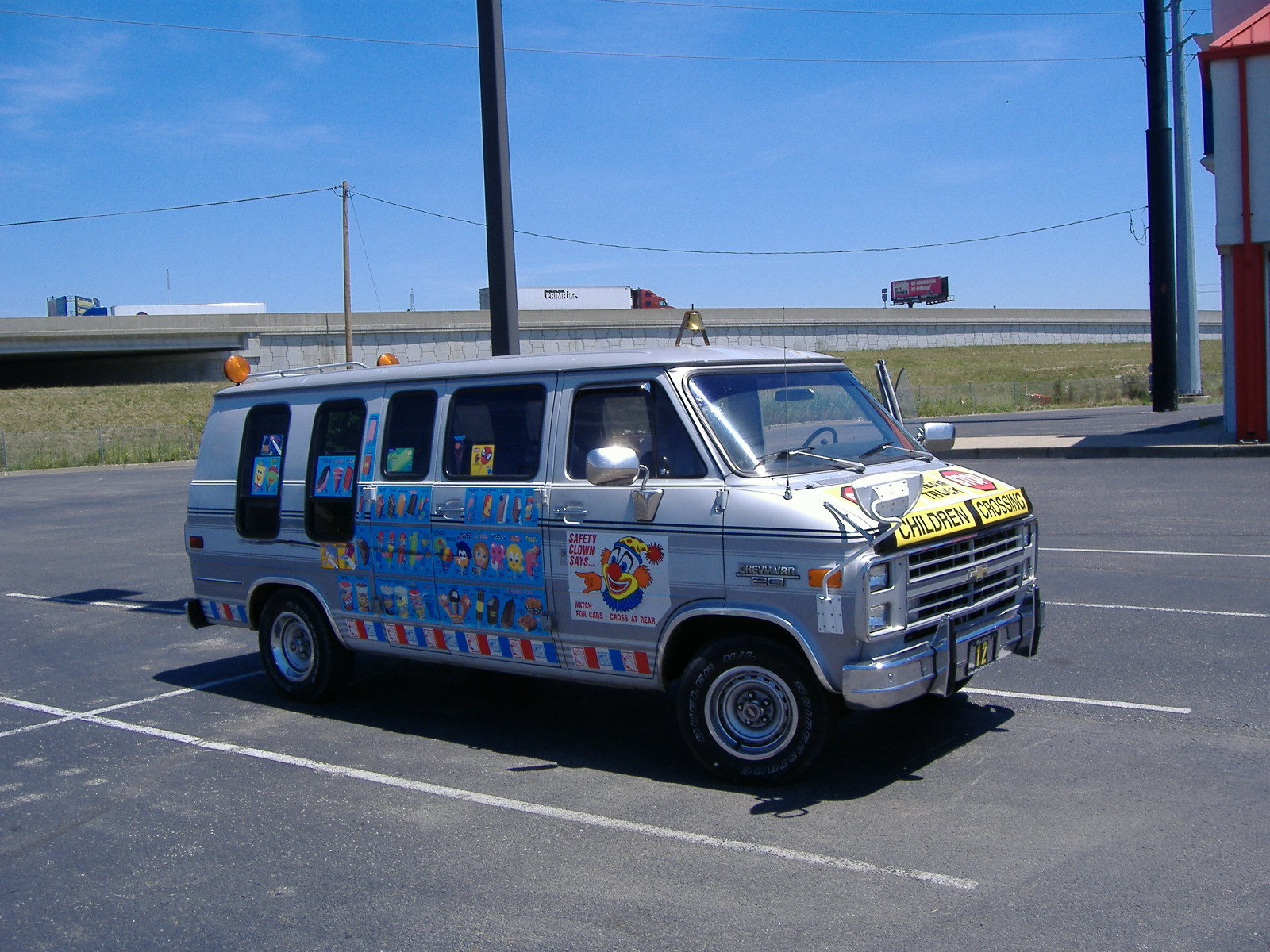 A Frosty Treats van, based in Louisville